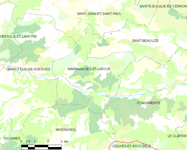 Map commune FR insee code 12139.png - Marnhagues-et-Latour